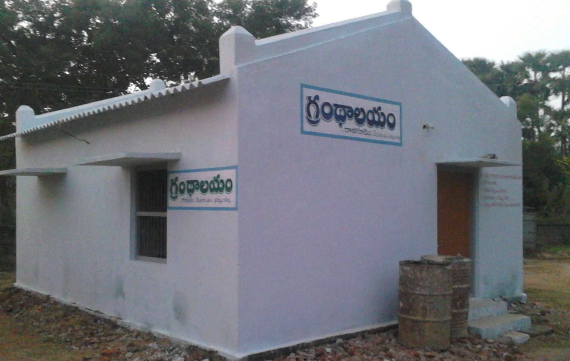 This photo has taken when the library is open by my self